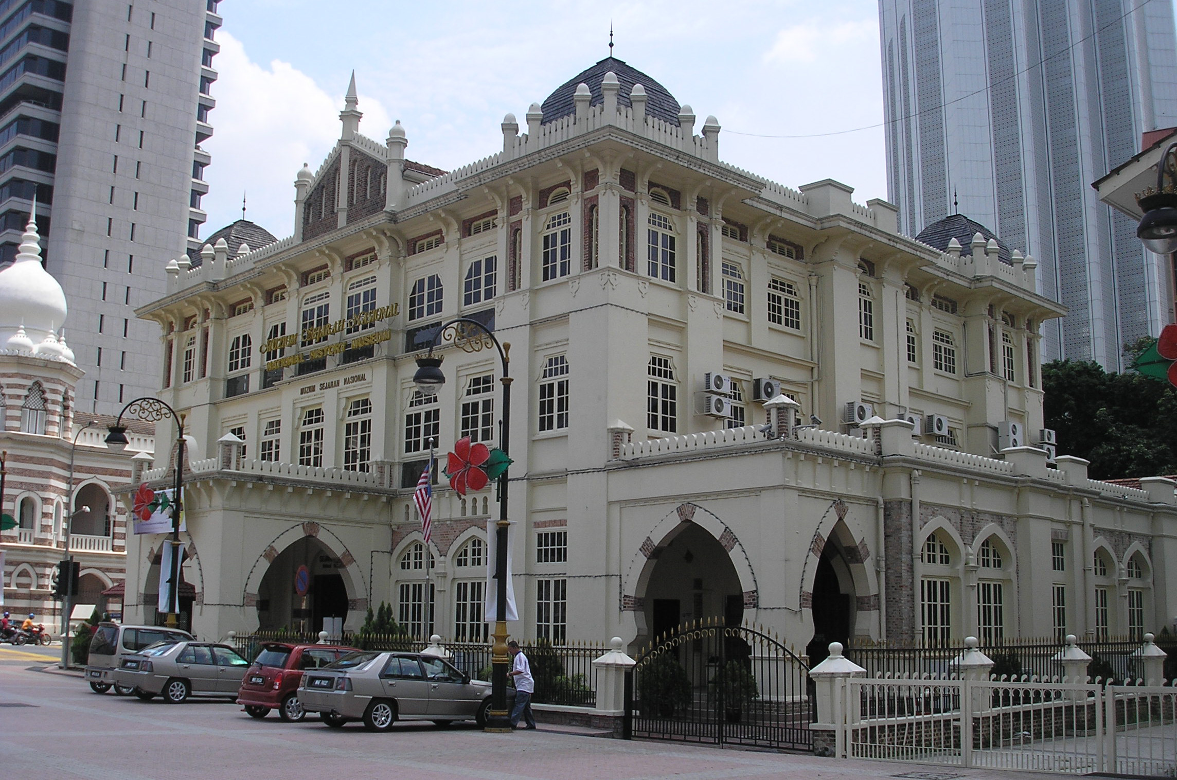 The Natural History Museum (formerly the Chartered Bank of India, Australia and China building) (alternate view), Merdeka Square, Kuala Lumpur, Malaysia.